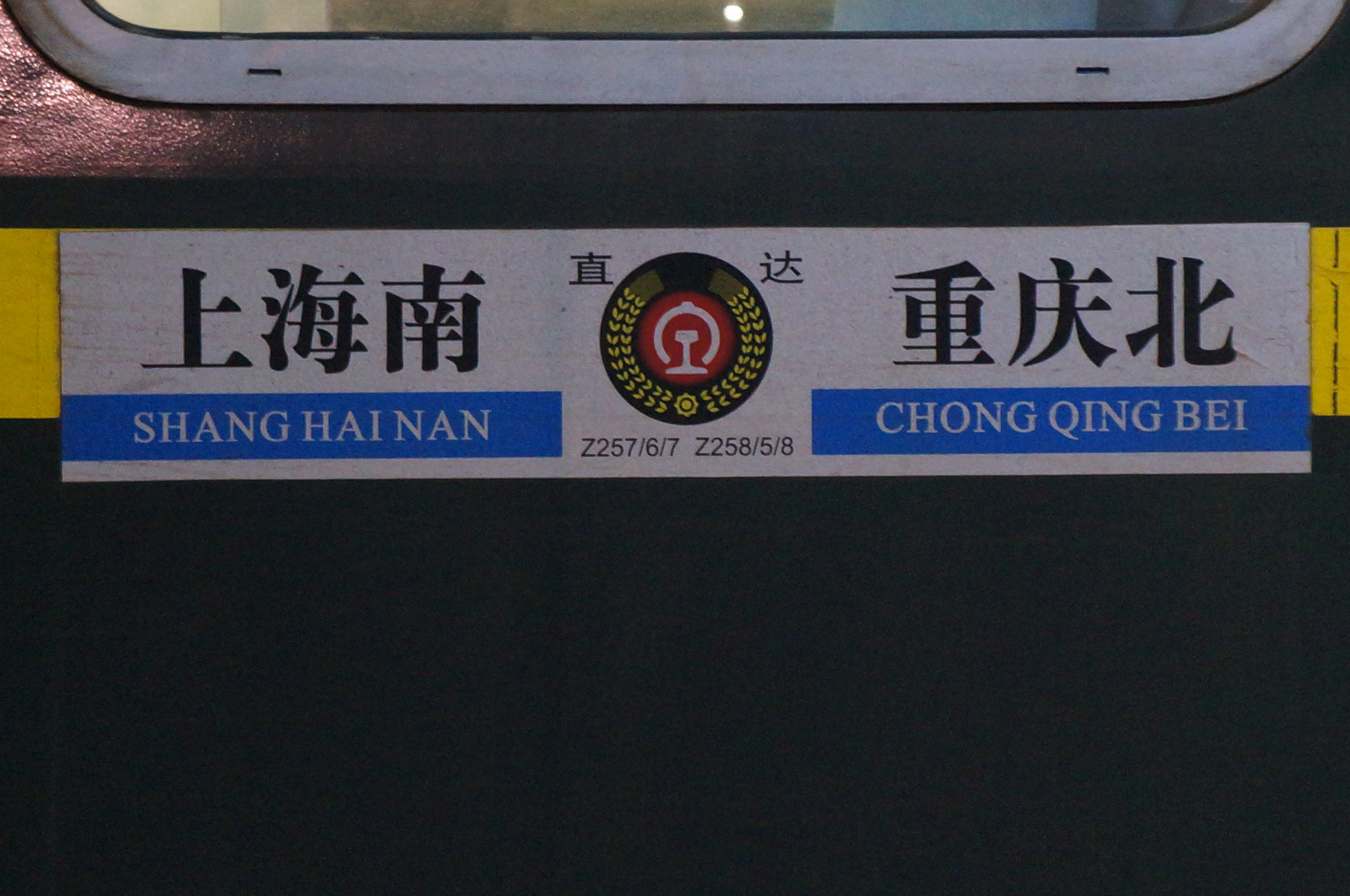 Z257 8 Direction Board